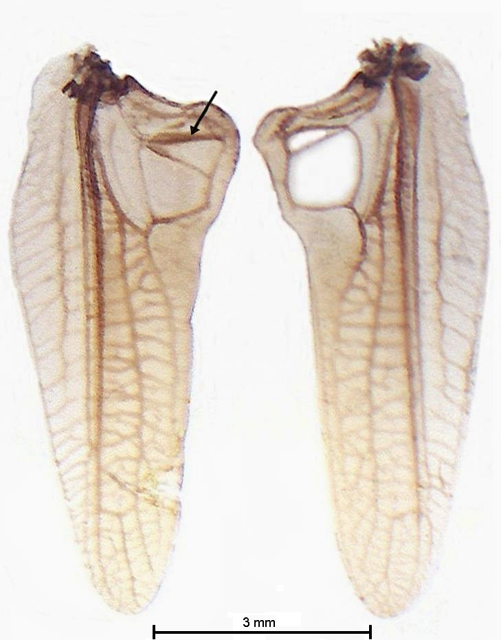 Left and right forewing of an adult male. The arrow indicates the file carrying the teeth that serve sound production